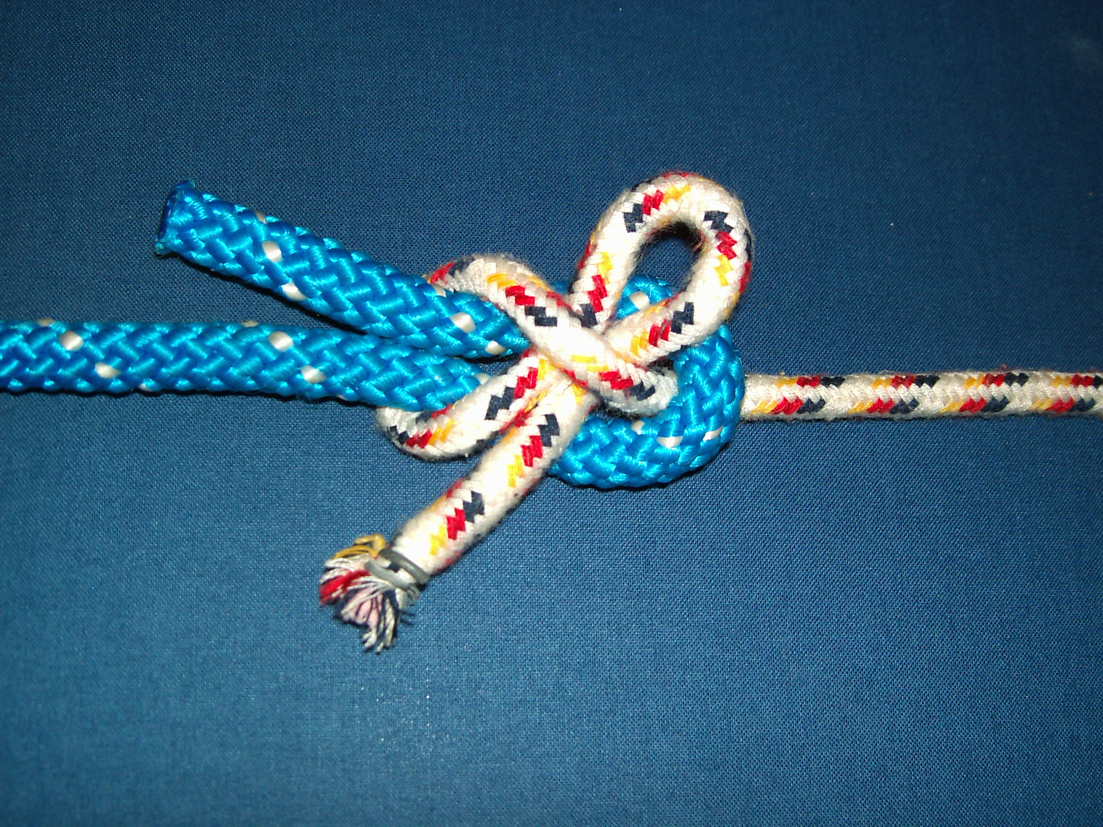 Sheet bend with slippery hitch